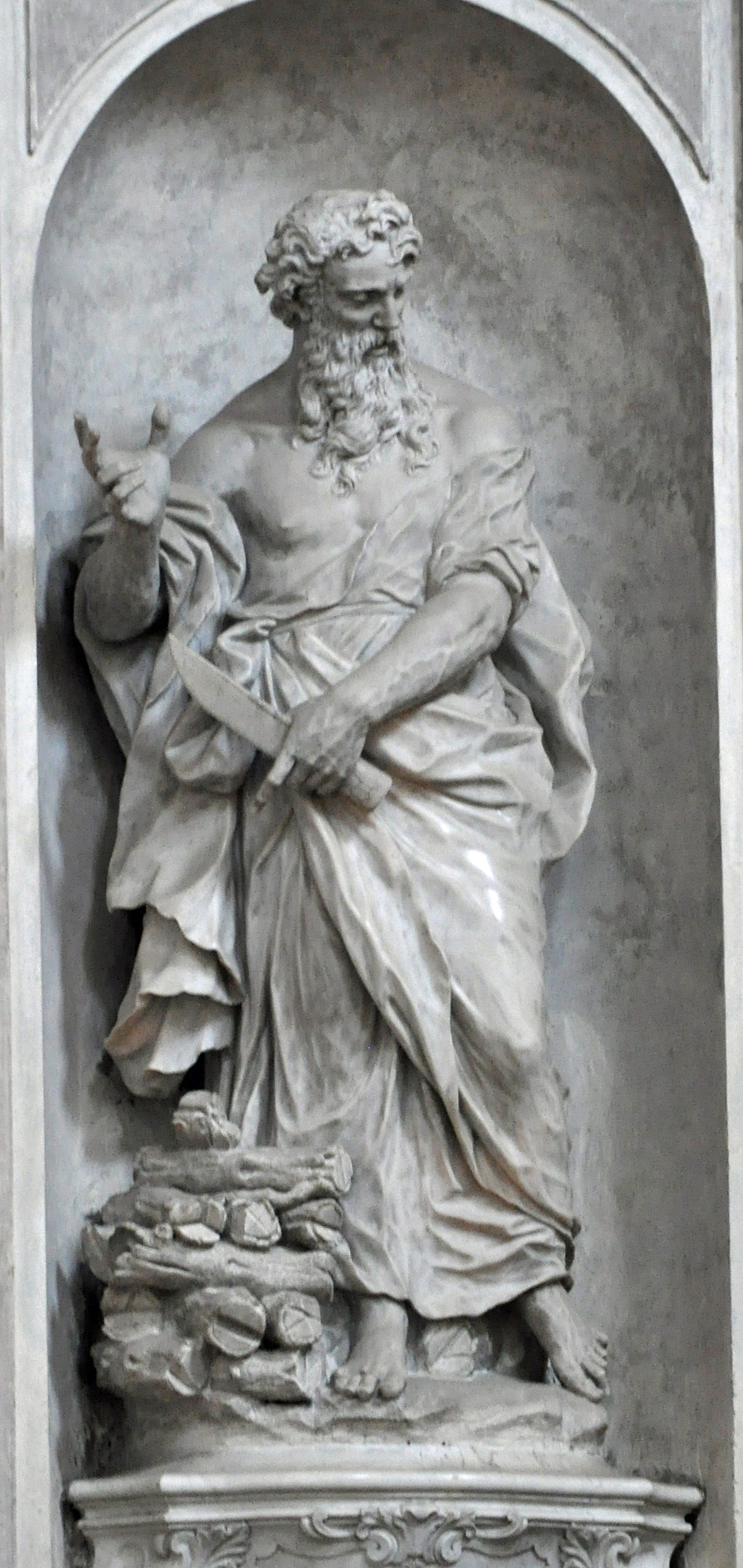 Gian Maria Morlaiter, Abraham, 1754. Gesuati Church (Our Lady of the Rosary), Venice. The logs at the patriarch's right foot are of course for the sacrifice of his son Isaac, whose statue is nearby.